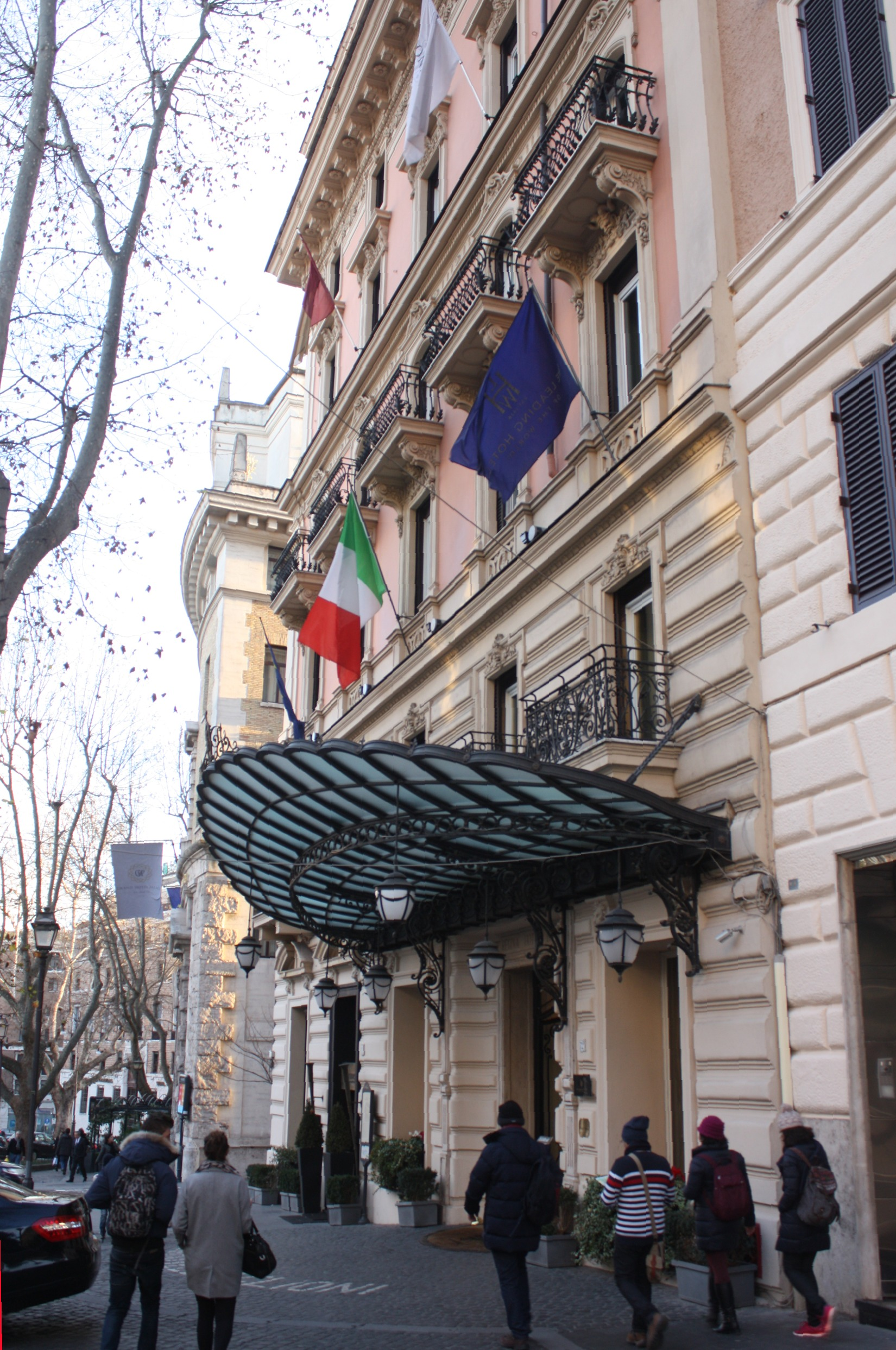 Rom, house 72 Via Vittorio Veneto, hotel Regina